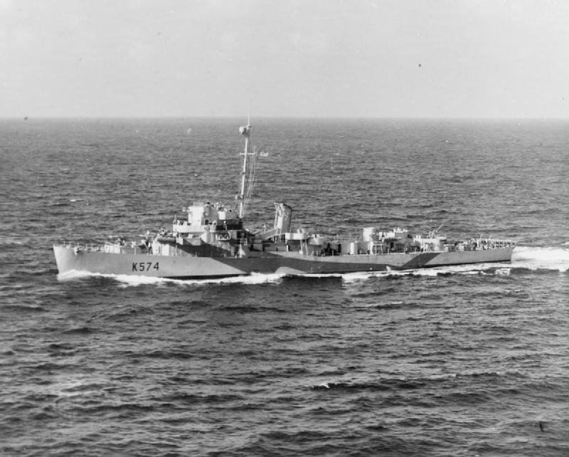 Royal Navy Captain class frigate HMS Thornborough photographed from aircraft based at the Royal Naval Air Station HMS OSPREY, Dunoon, Scotland.